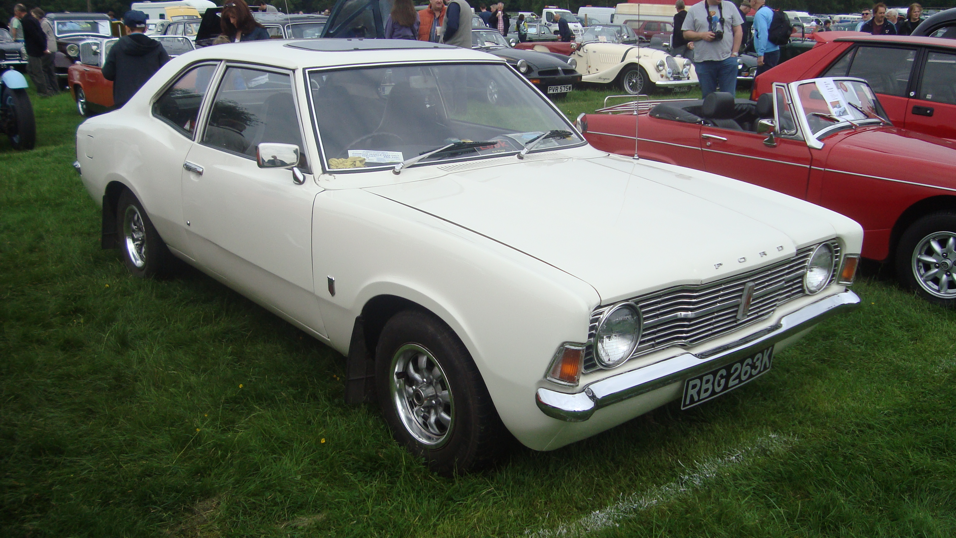 1971 Ford Cortina 1600 L